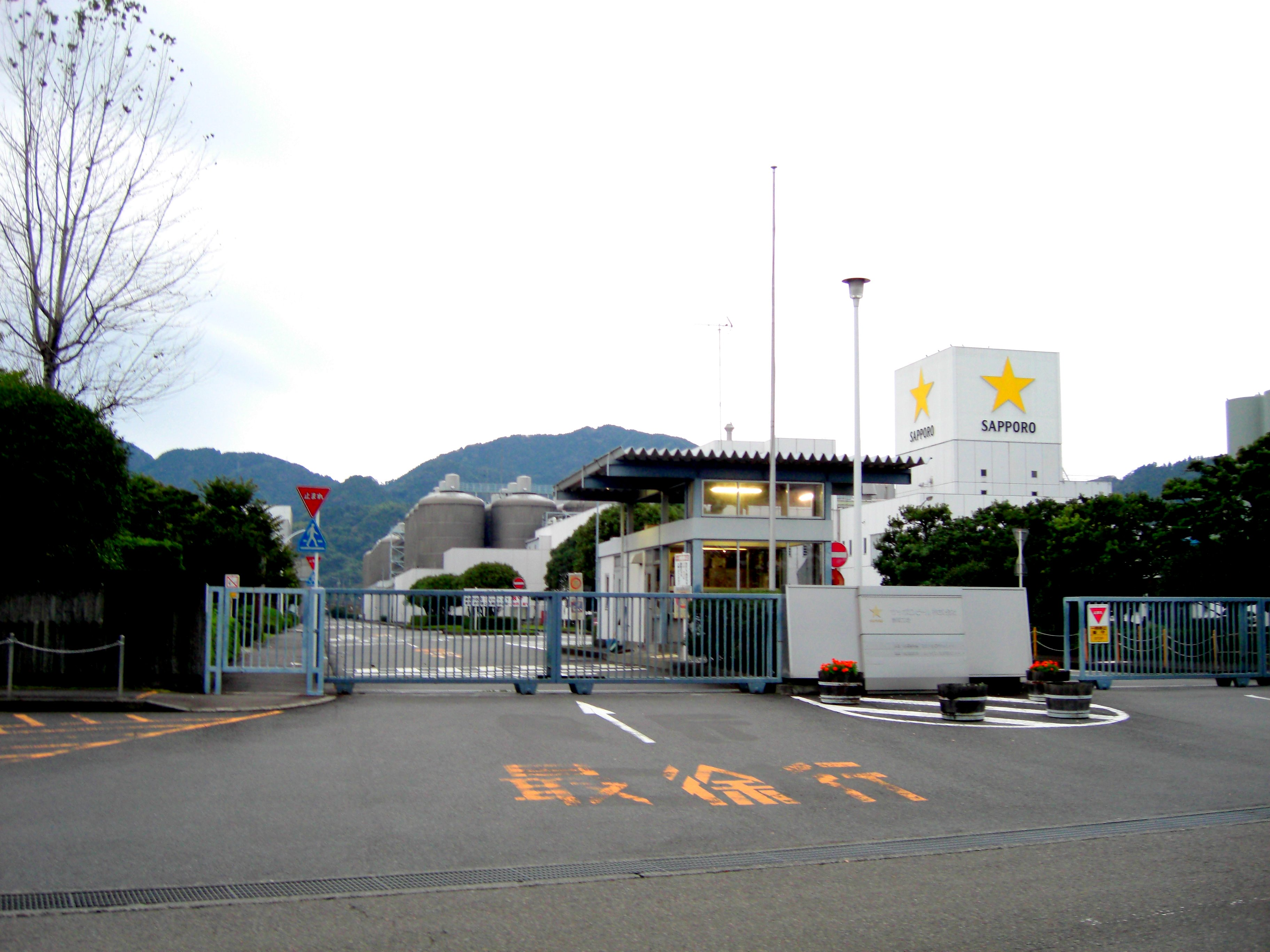 Sapporo Breweries Shizuoka Brewery